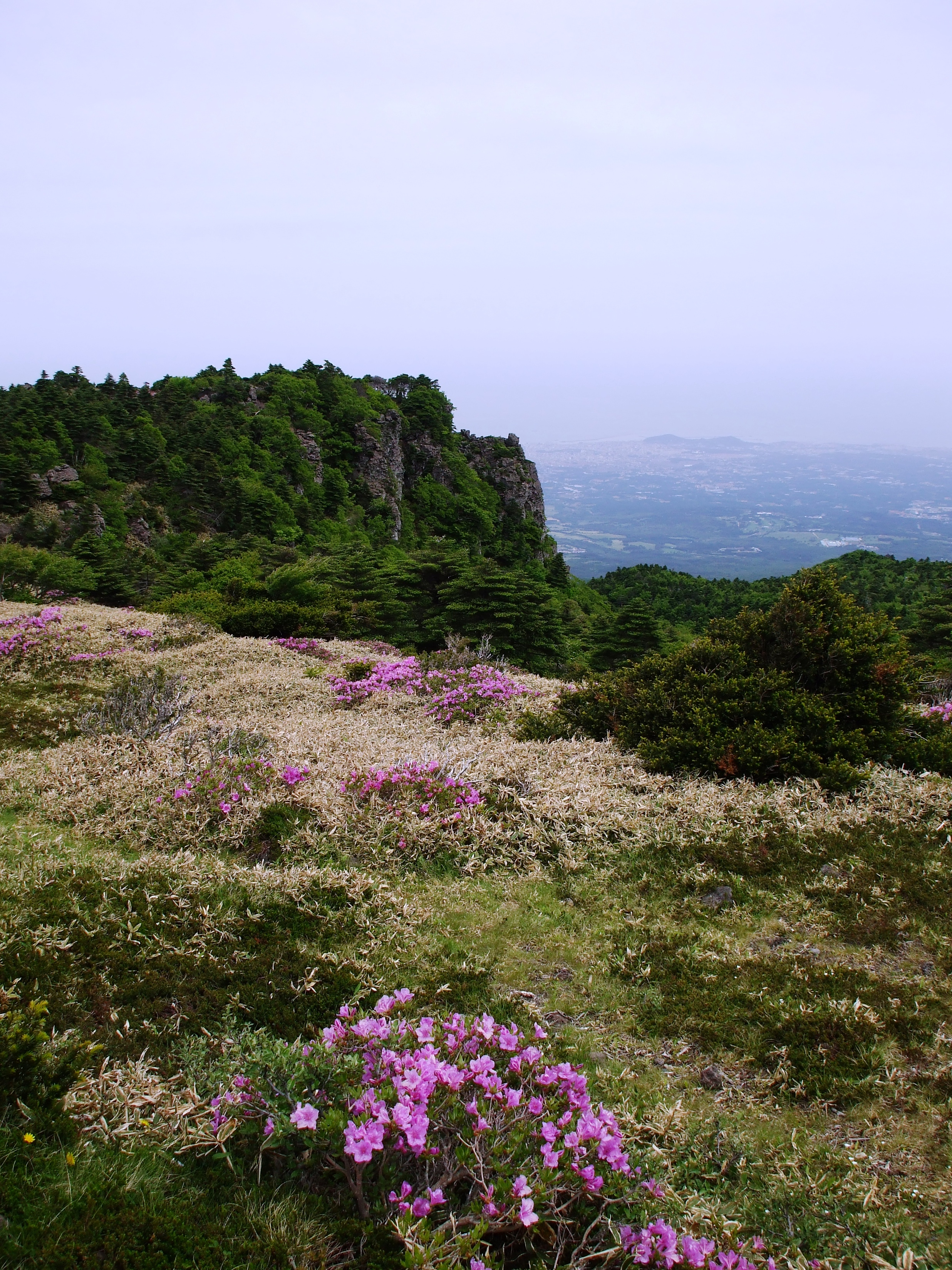 A scene at Mount Halla, Jeju Island, South Korea.